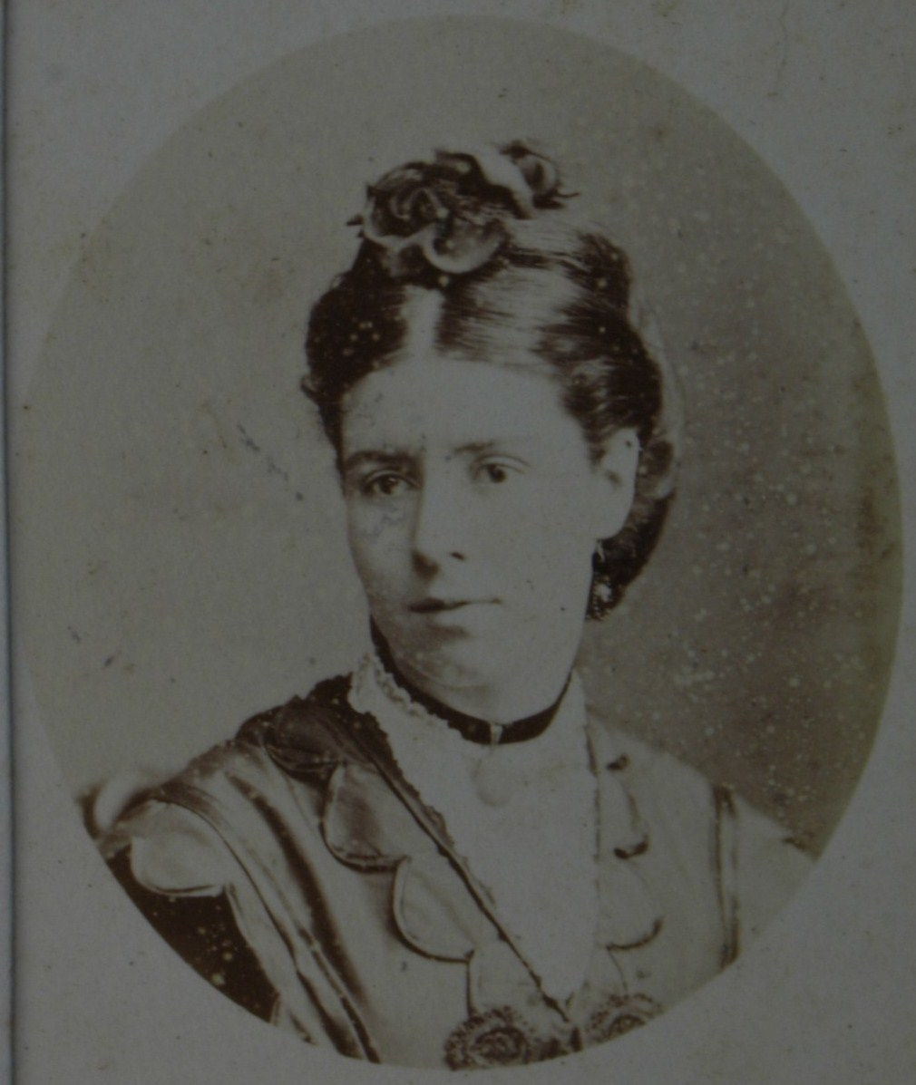 My photo (Rodolph (talk) 00:35, 12 August 2013 (UTC)) of a circa 1880 photo of Nina Farrer (1848-1929).